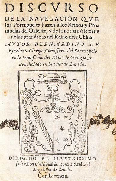 The title page of Bernardino de Escalante's Discurso de la navegacion que los Portugueses hacen a los Reinos y Provincias de Oriente, y de la noticia que se tiene de las grandezas del Reino de la China